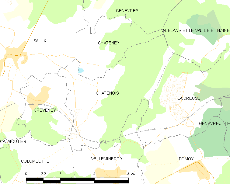 Map of French municipality